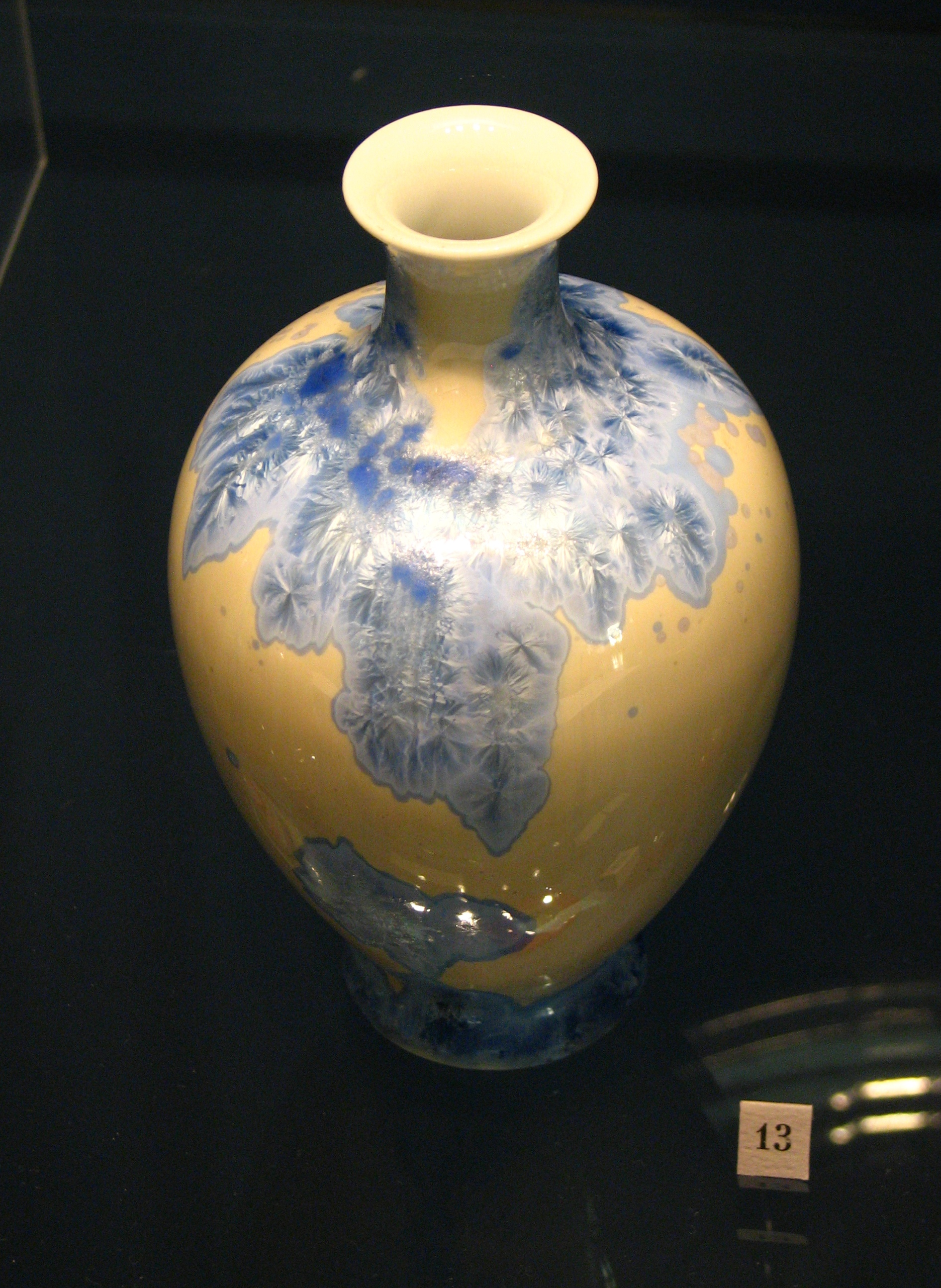 St.Petersburg. The Museum of the Imperial Porcelain Factory. Vase with crystal glaze coating. Glaze makers K.F. Clover and Y.G. van der Bellen. Imperial Porcelain Factory and Glassworks, Russia. 1900s. Porcelain, crystalline glaze.